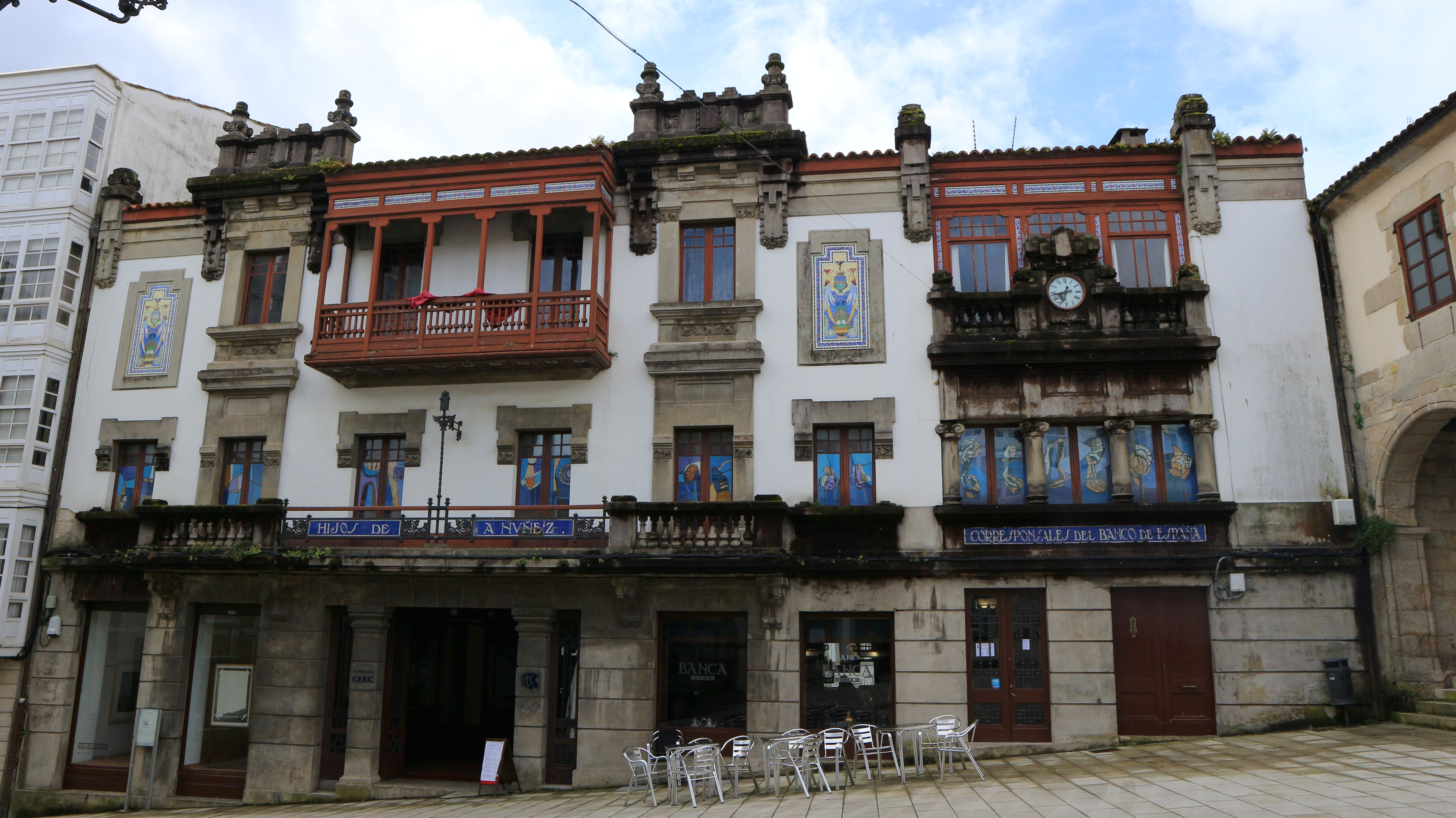 Casa Nuñez, Betanzos.